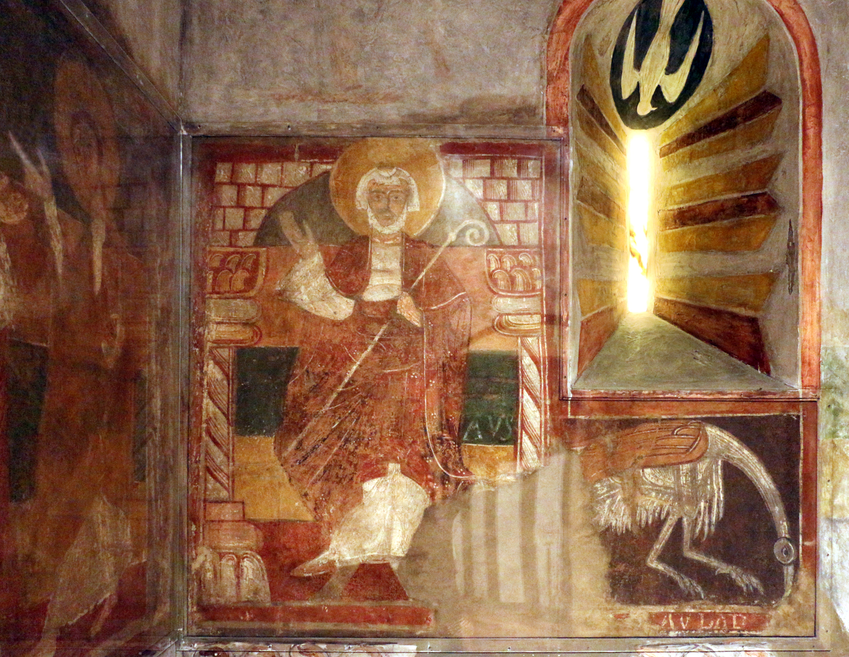 Spanish paintings in the Cincinnati Art Museum